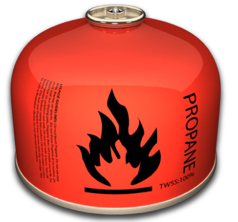 импортный пропановый баллон